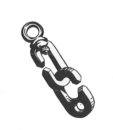 Inglefield clip Used for attaching signal flags to halyards